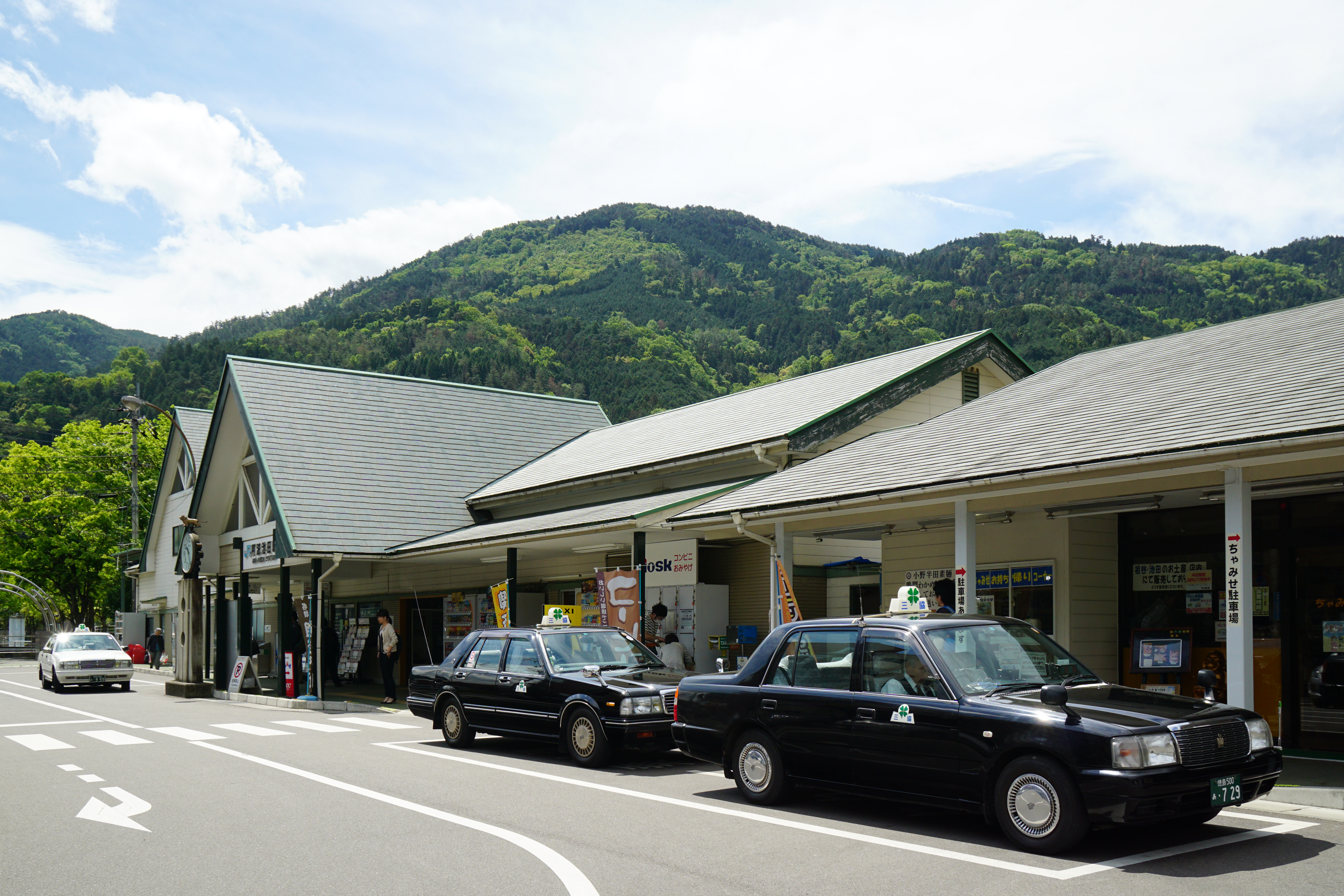 Awa-Ikeda Station in Miyoshi, Tokushima prefecture, Japan.